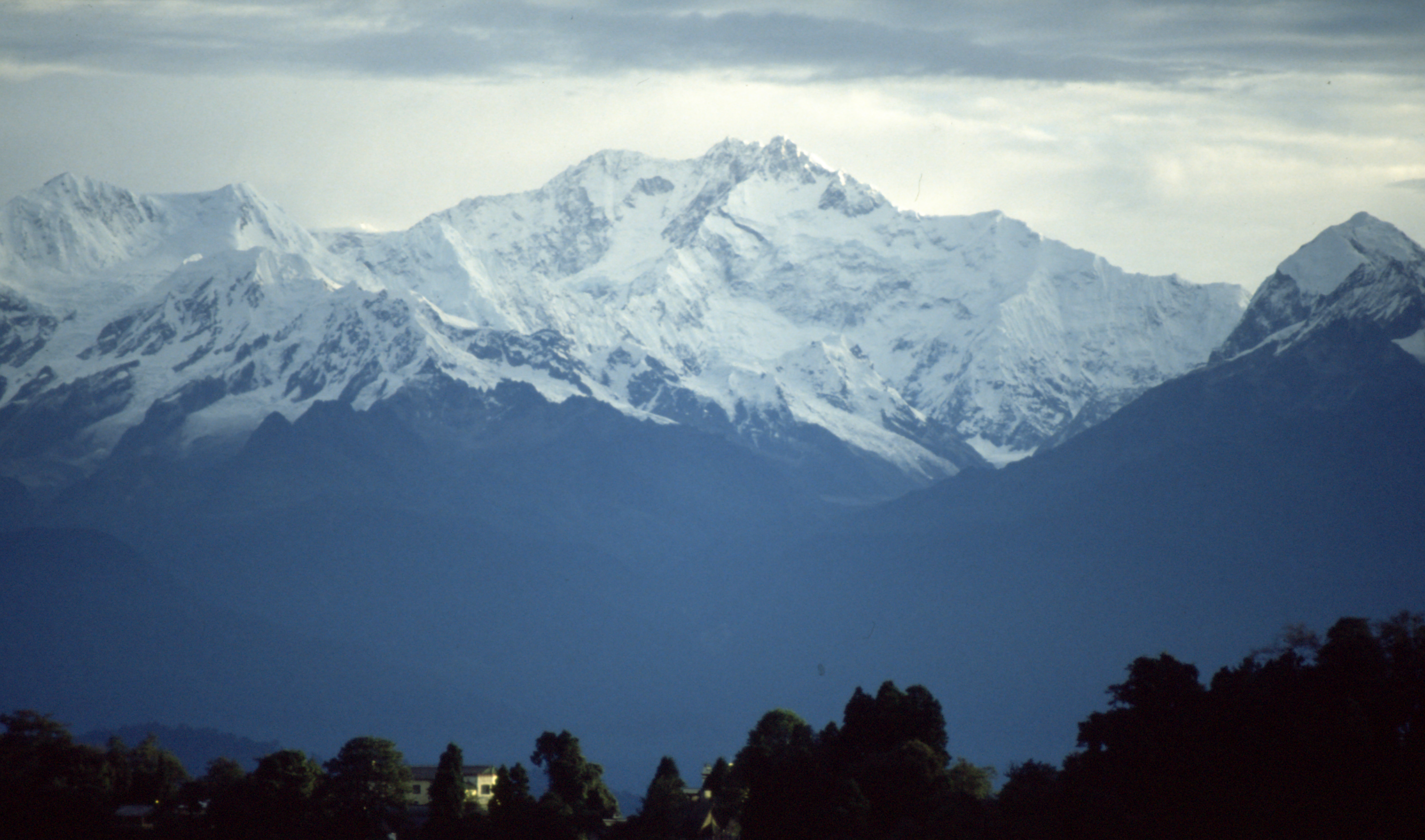 Kangchenjunga, view from Darjeeling town, 7am in summer